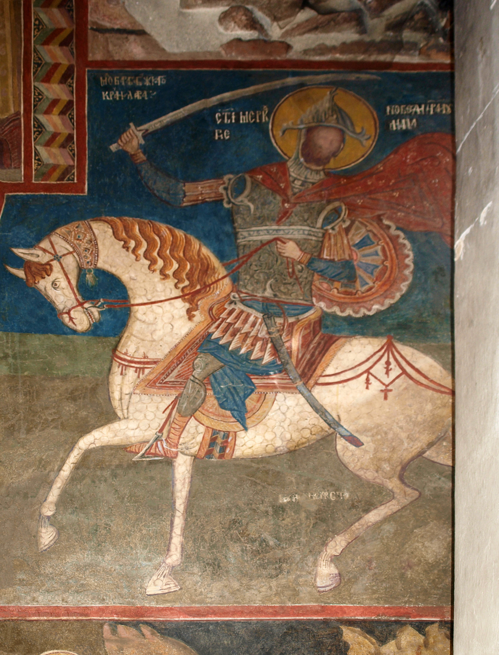 Main church of the Dragalevtsi Monastery: fresco on an exterior wall